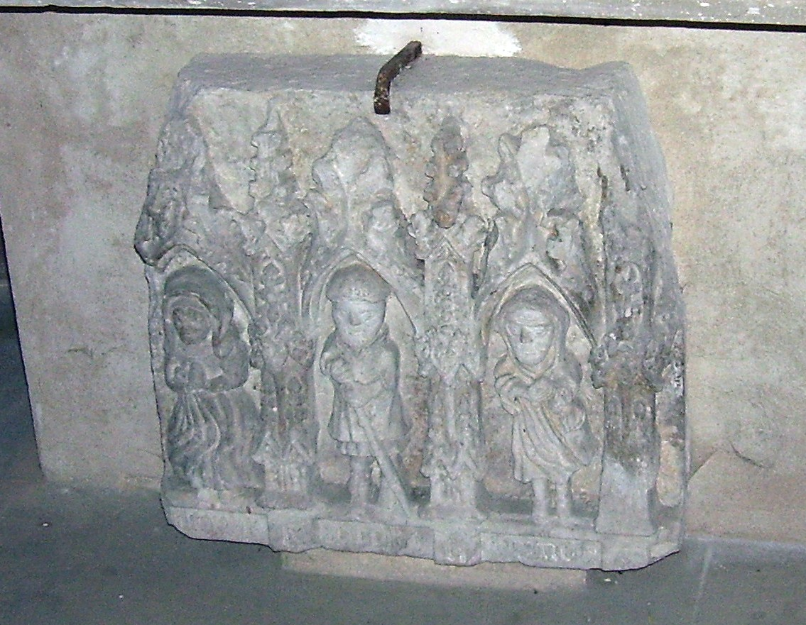 Fragments of a tomb (15th century) in the church Saint-André in Le Bec-Hellouin in the département Eure in France.